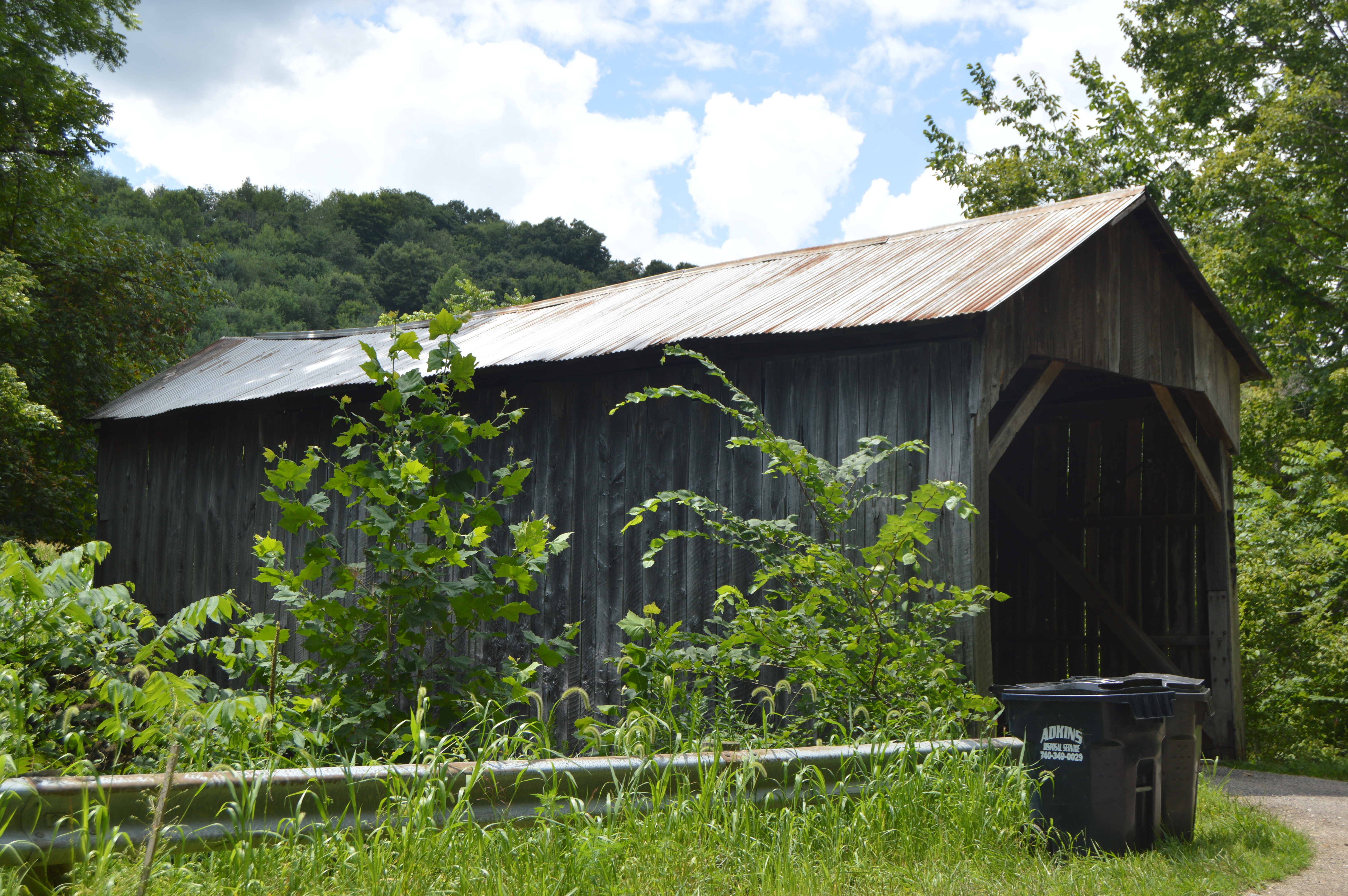 Southeastern side and northeastern portal of the Davis Farm Covered Bridge, which carries the farm's driveway over the Rocky Fork in eastern Mary Ann Township, Licking County, Ohio, United States. It was built in 1947.